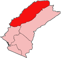 Map of Grand Cape Mount County, Liberia showing Porkpa District; created with the GIMP. Made by User:Acntx.